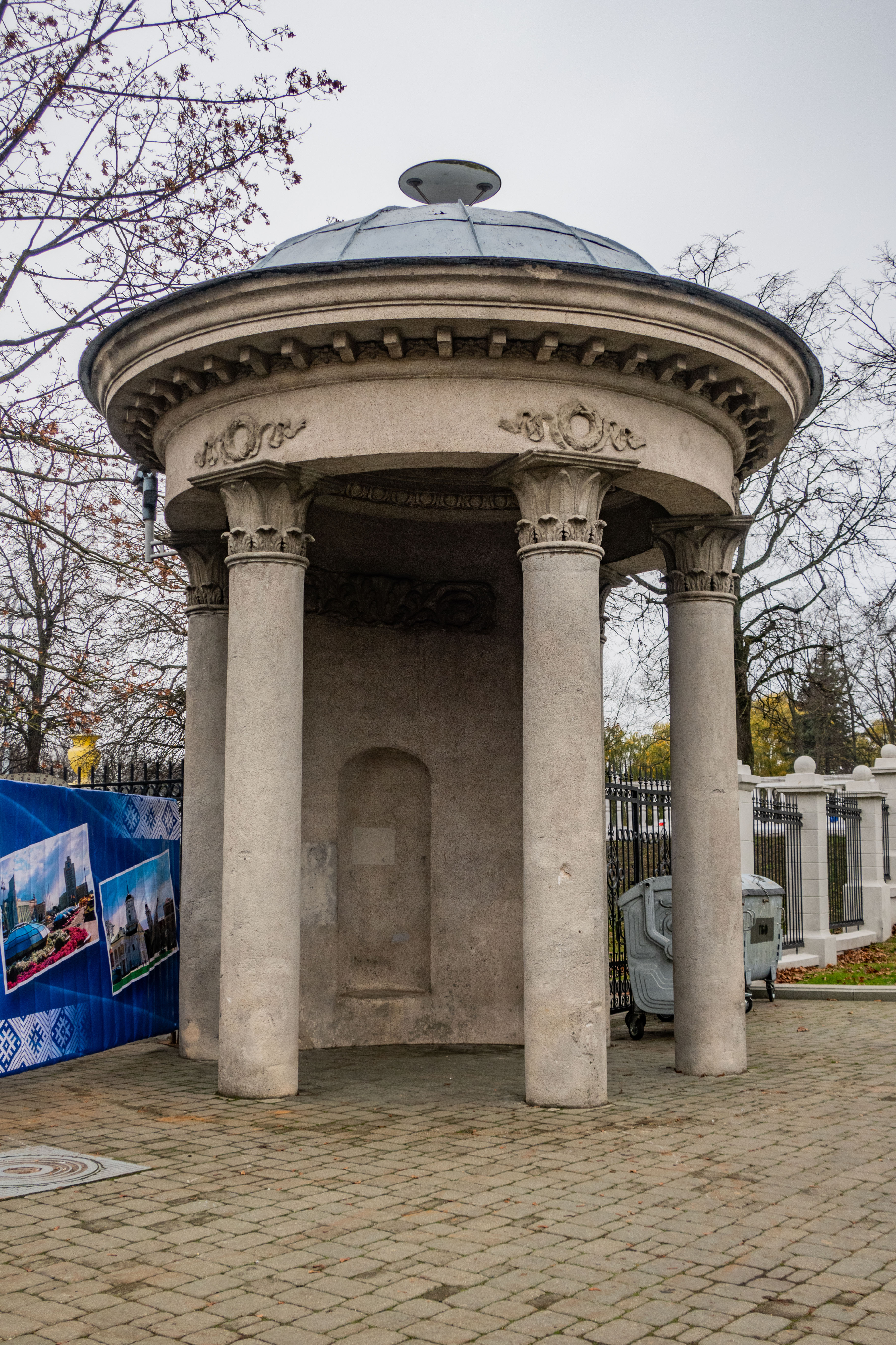 Central Children's Park — Park Horkaha (Gorky). Minsk, Belarus